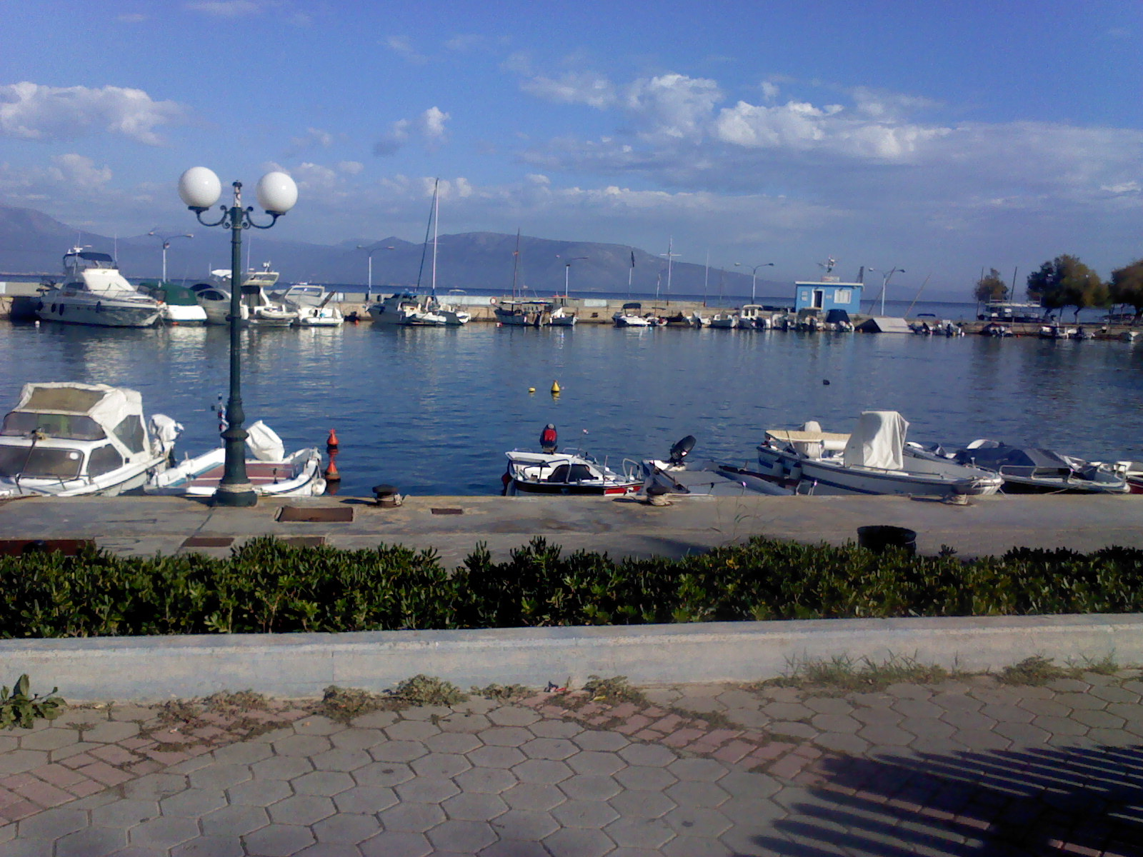 Port Agioi Apostoloi Kalamos